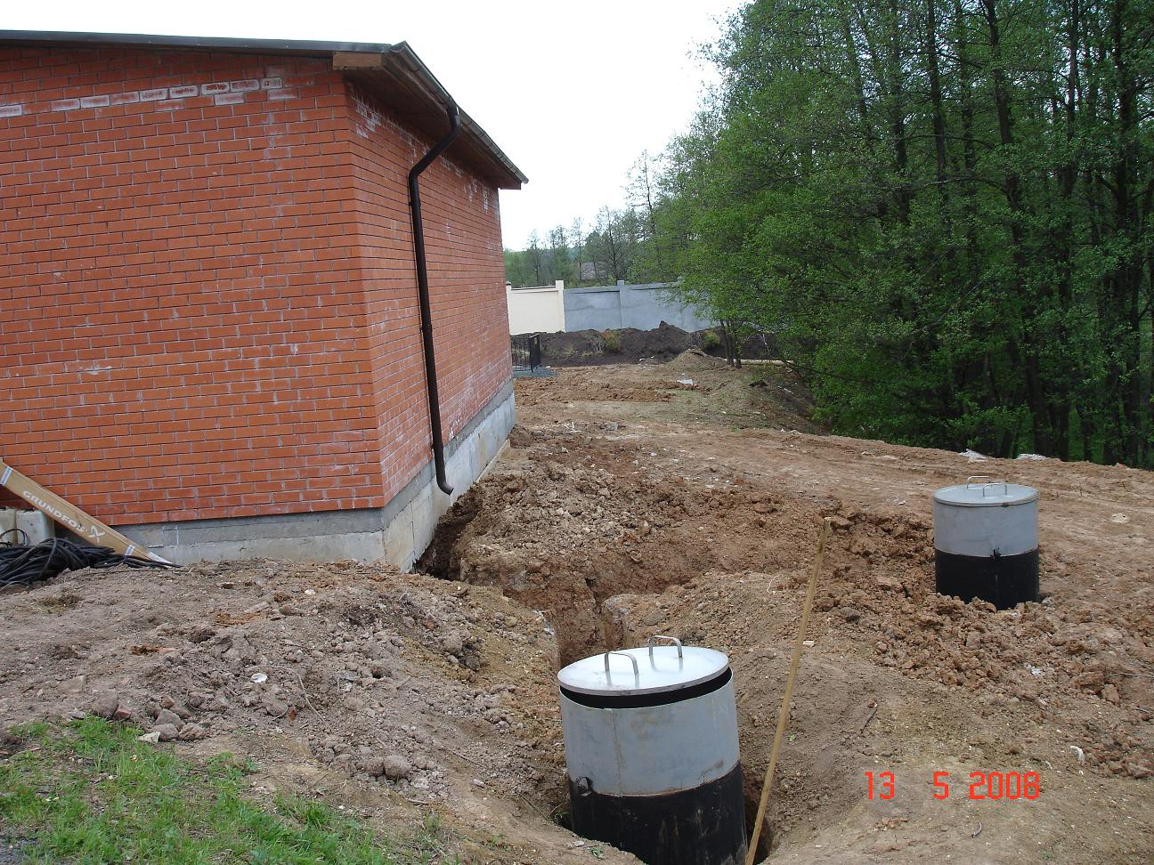 water wells and the building with pumps to supply water